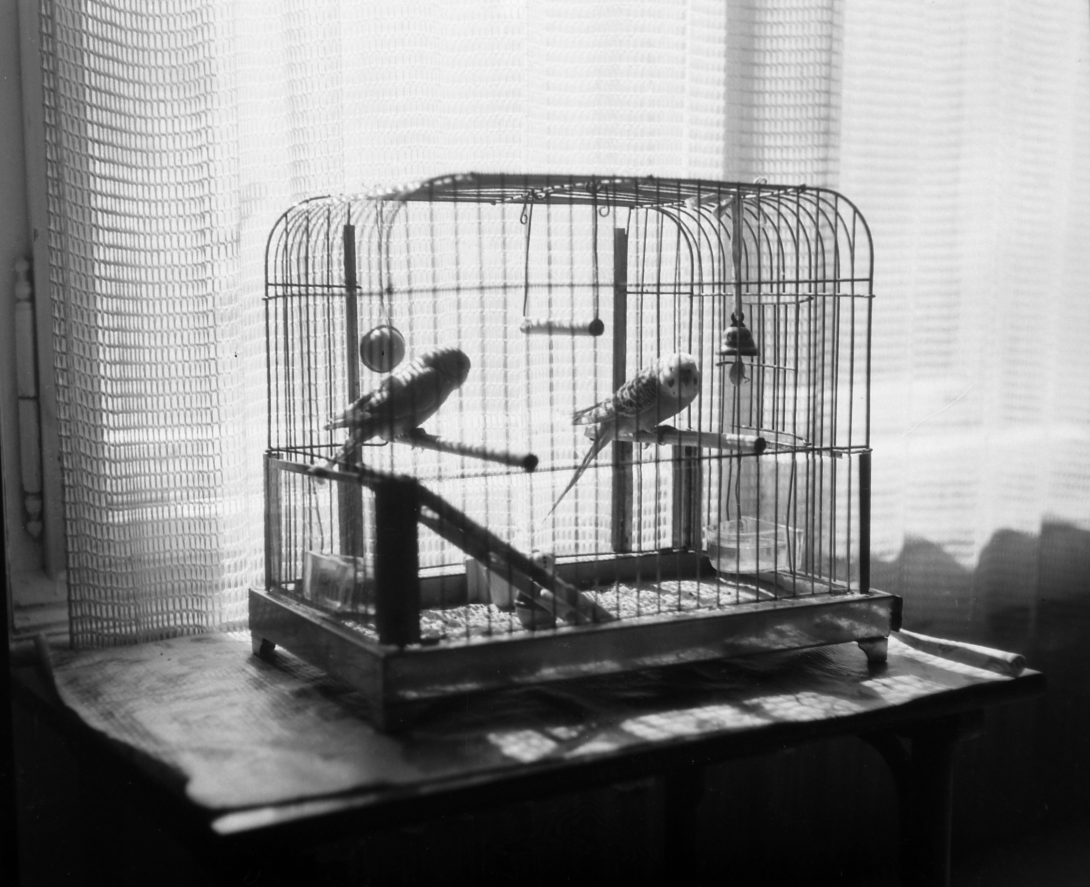 Tags: interior, bird cage, parrot